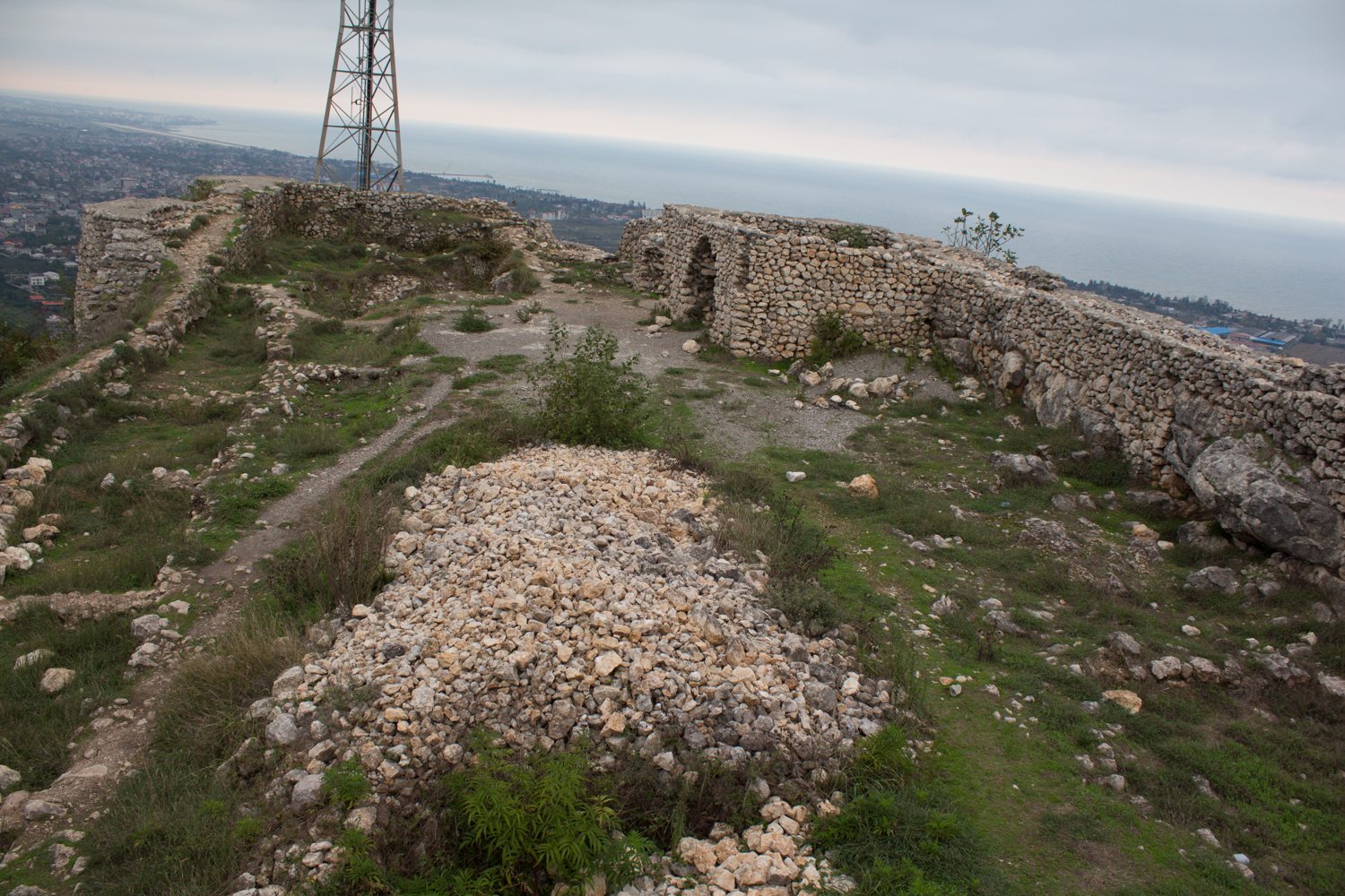 نمایی از داخل قلعه مارکو